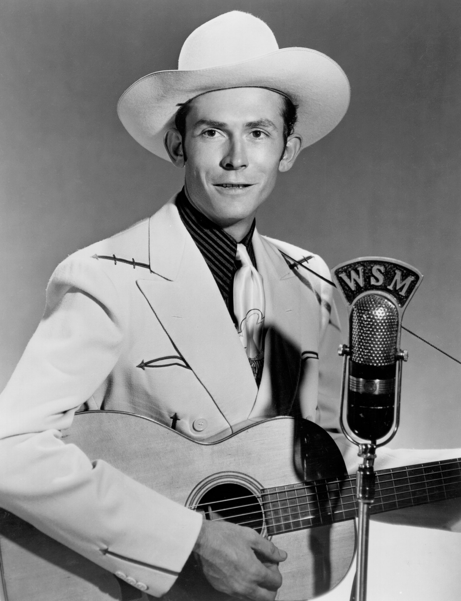 Hank Williams publicity photo for WSM in 1951.